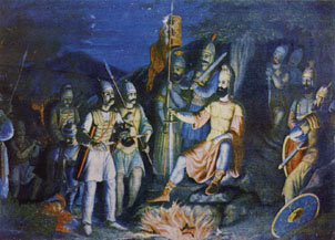 Khan Krum Receives the Head of the Byzantine tzar Nicephorus. Painting